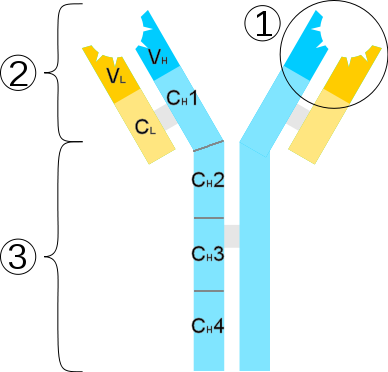 Scheme of and IgM/IgE with its costant (C) and variable (V) regions: antigen binding fragment Fab region Fc region blue: heavy chains yellow: light chains